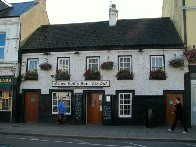 Grace Neill's Bar, Donaghadee Officially listed as ‘the oldest pub in Ireland’ in “The Guinness Book of Records”, Grace Neill's opened as the 'King's Arms' in 1611, the present name coming into use sometime in the 20th Century (Grace Neill (1818-1916) was a former landlady). Located in High Street, Donaghadee. for more information.